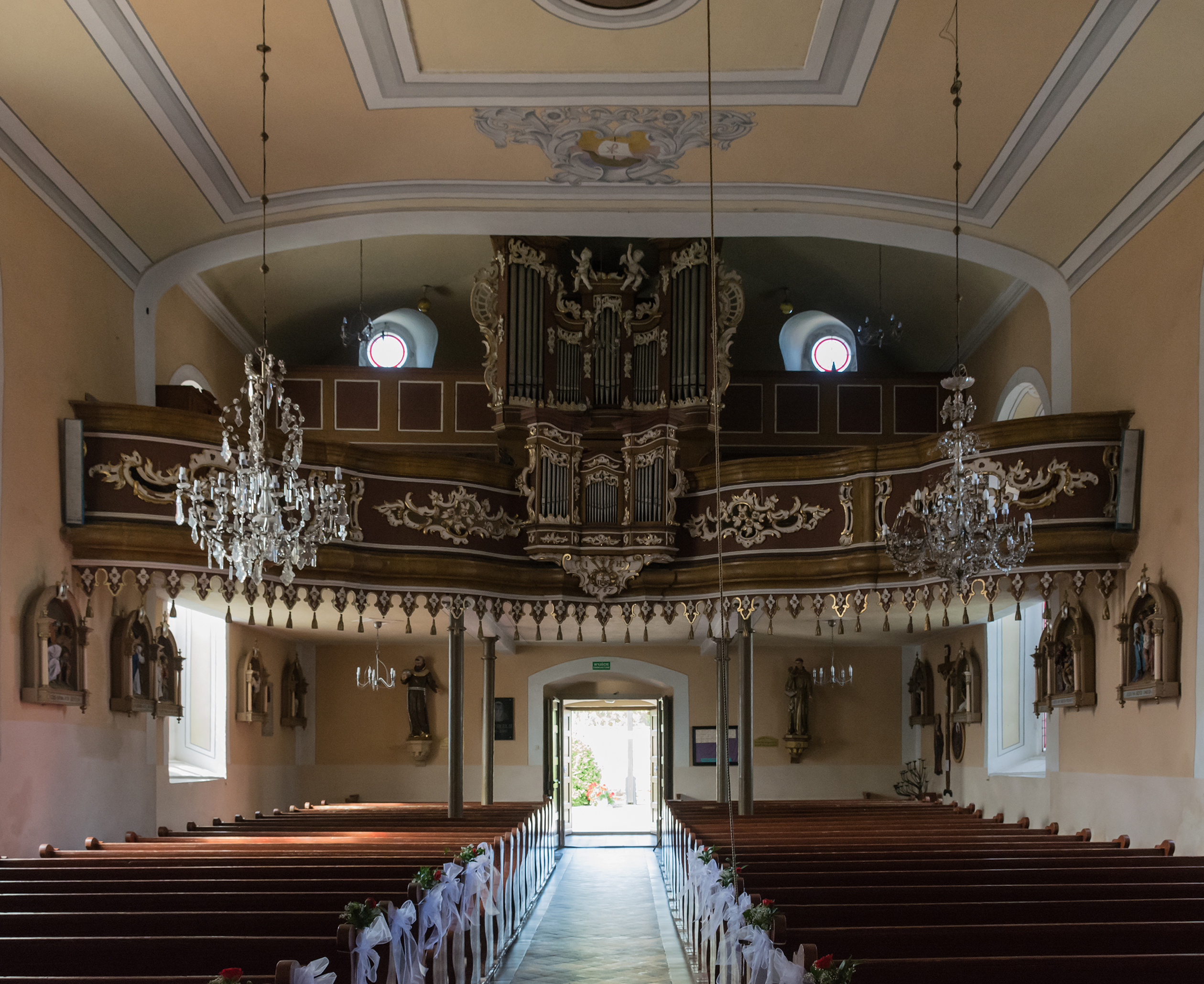 Saint Mary Magdalene Church in Ścinawka Średnia